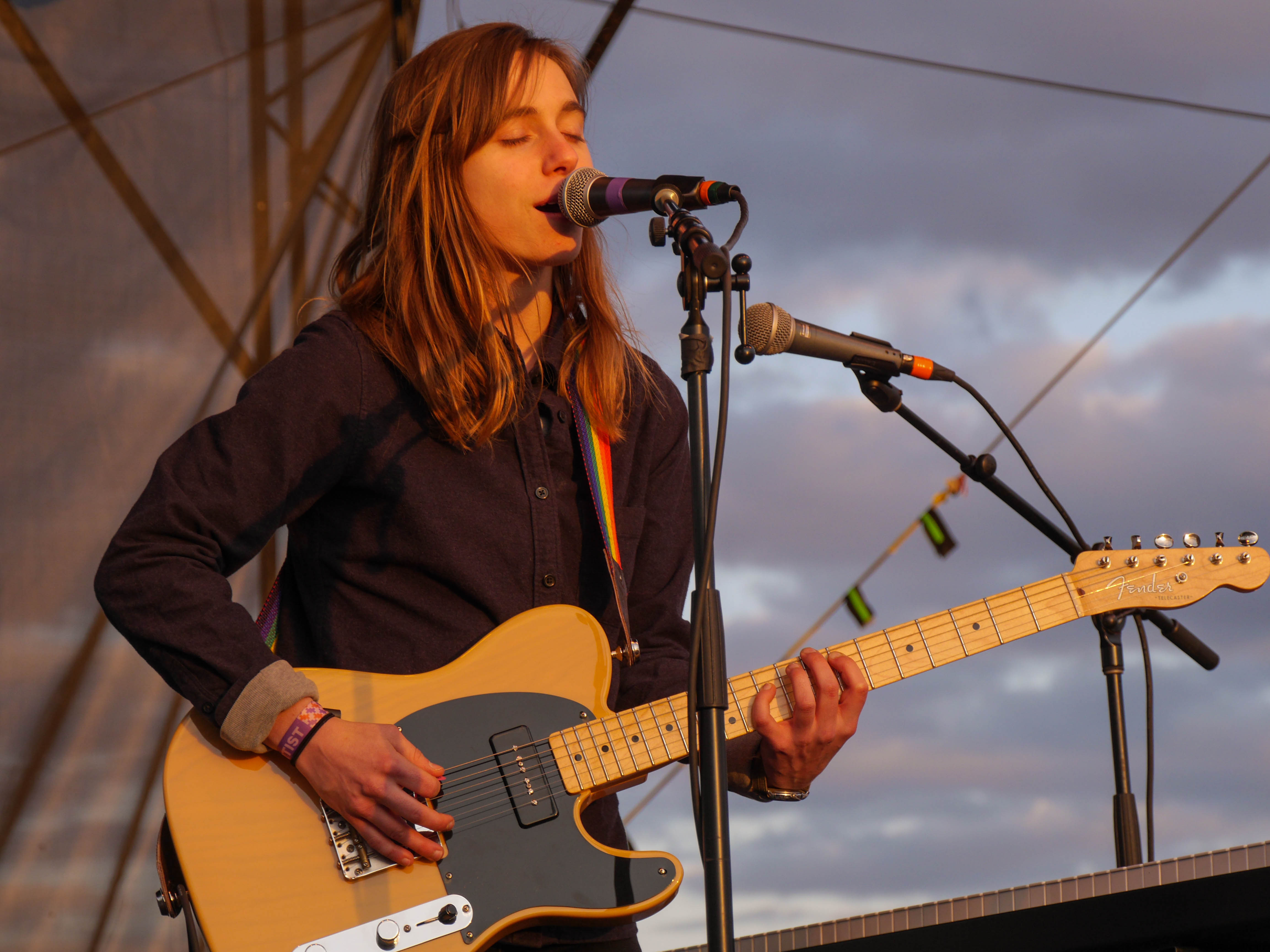 Julien Baker performing at The National's Homecoming festival in Cincinnati, Ohio - April 28, 2018